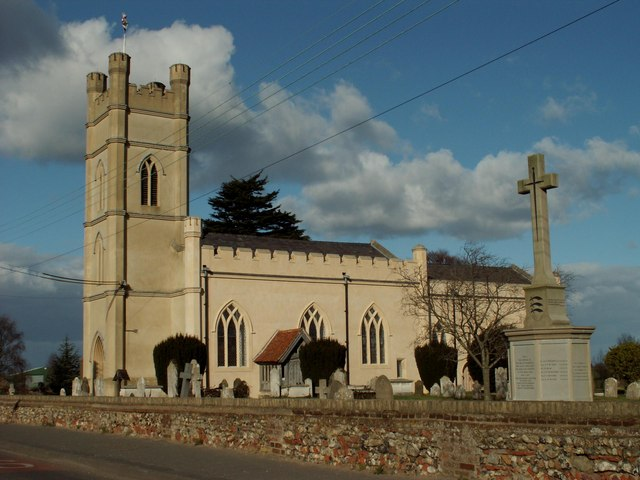 St Mary and All Saints parish church, Rivenhall, Essex, seen from the south